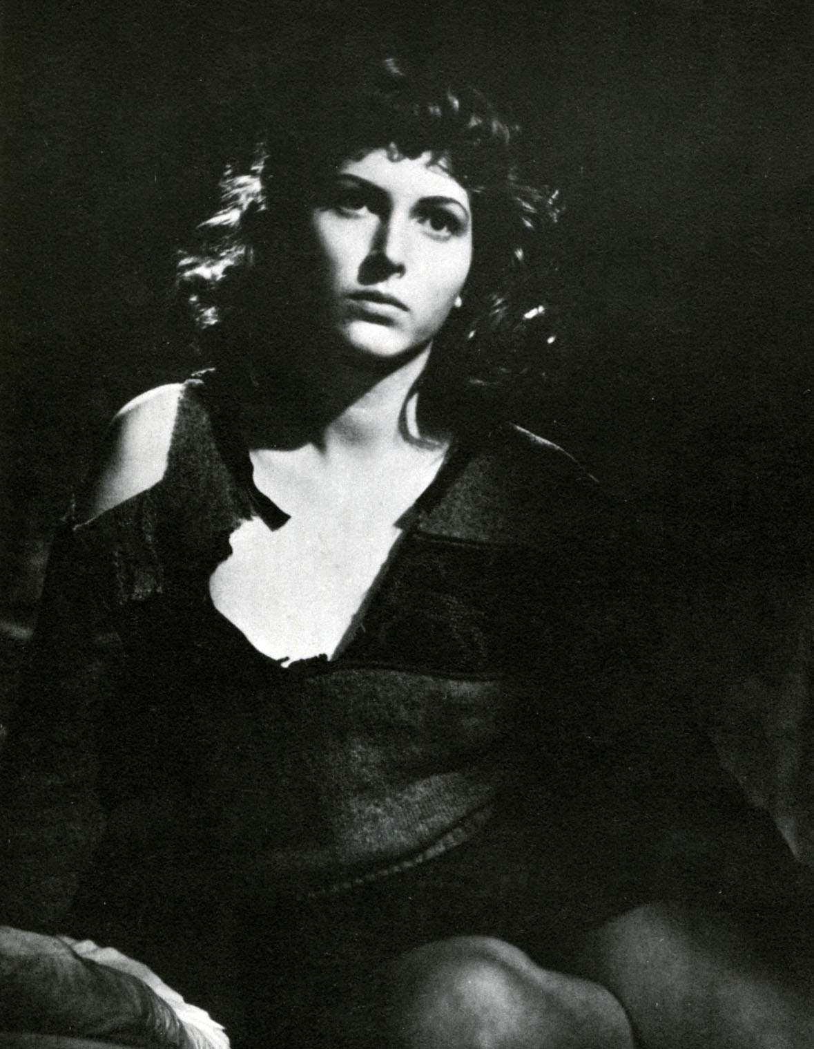 cropped screenshot from the film Tragic hunt (1947) by Giuseppe De Santis.